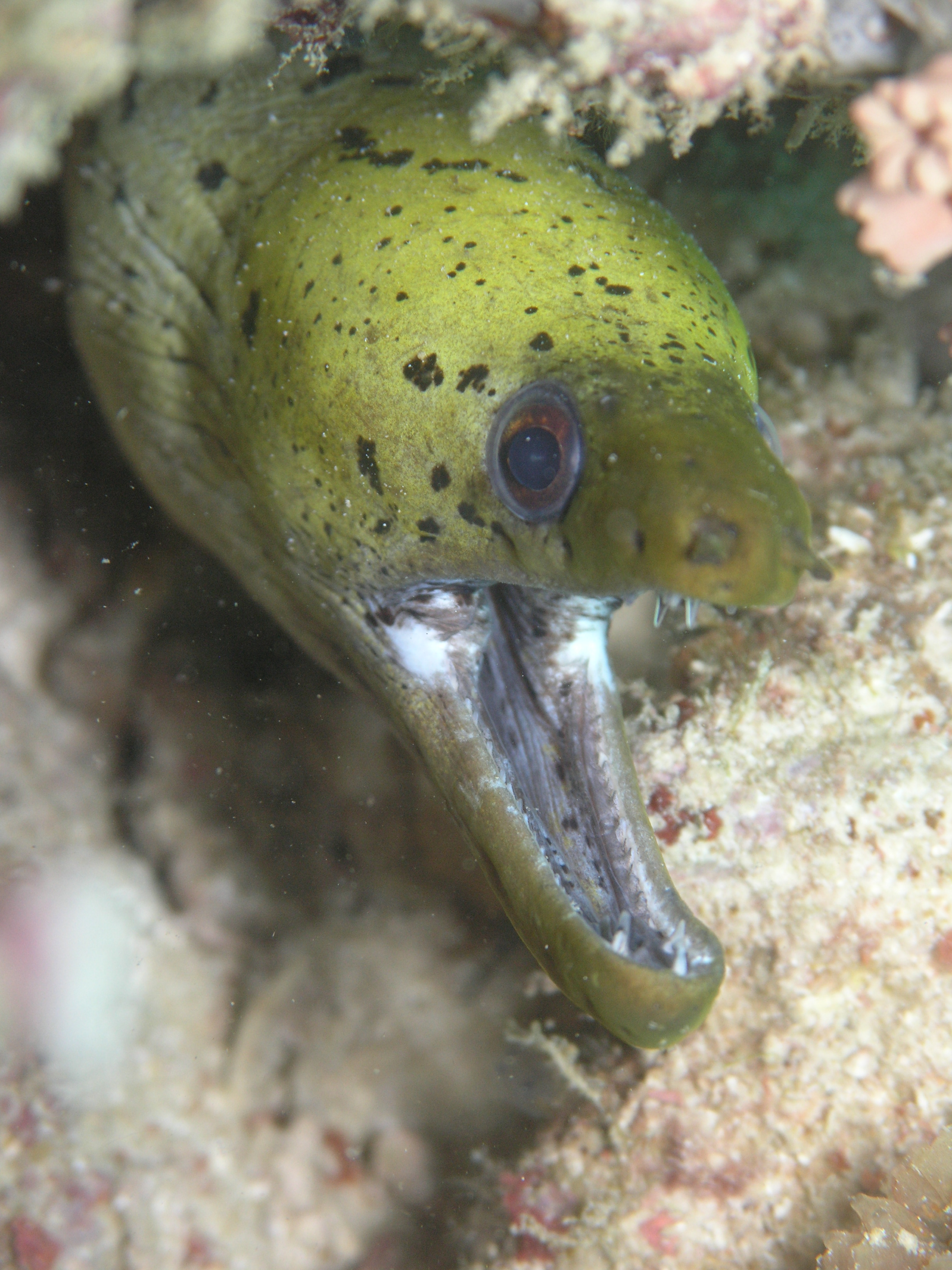 Image of fimbriated moray, Gymnothorax fimbriatus. Taken off Sipadan, Borneo, Malaysia.